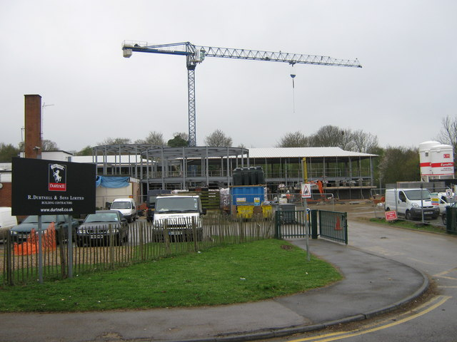 Remodelling of Rowhill School, Woodview Campus This school on B260 Main Road, New Barn is having new buildings built by R.Durtnell and Sons Ltd.(specialist in school construction).